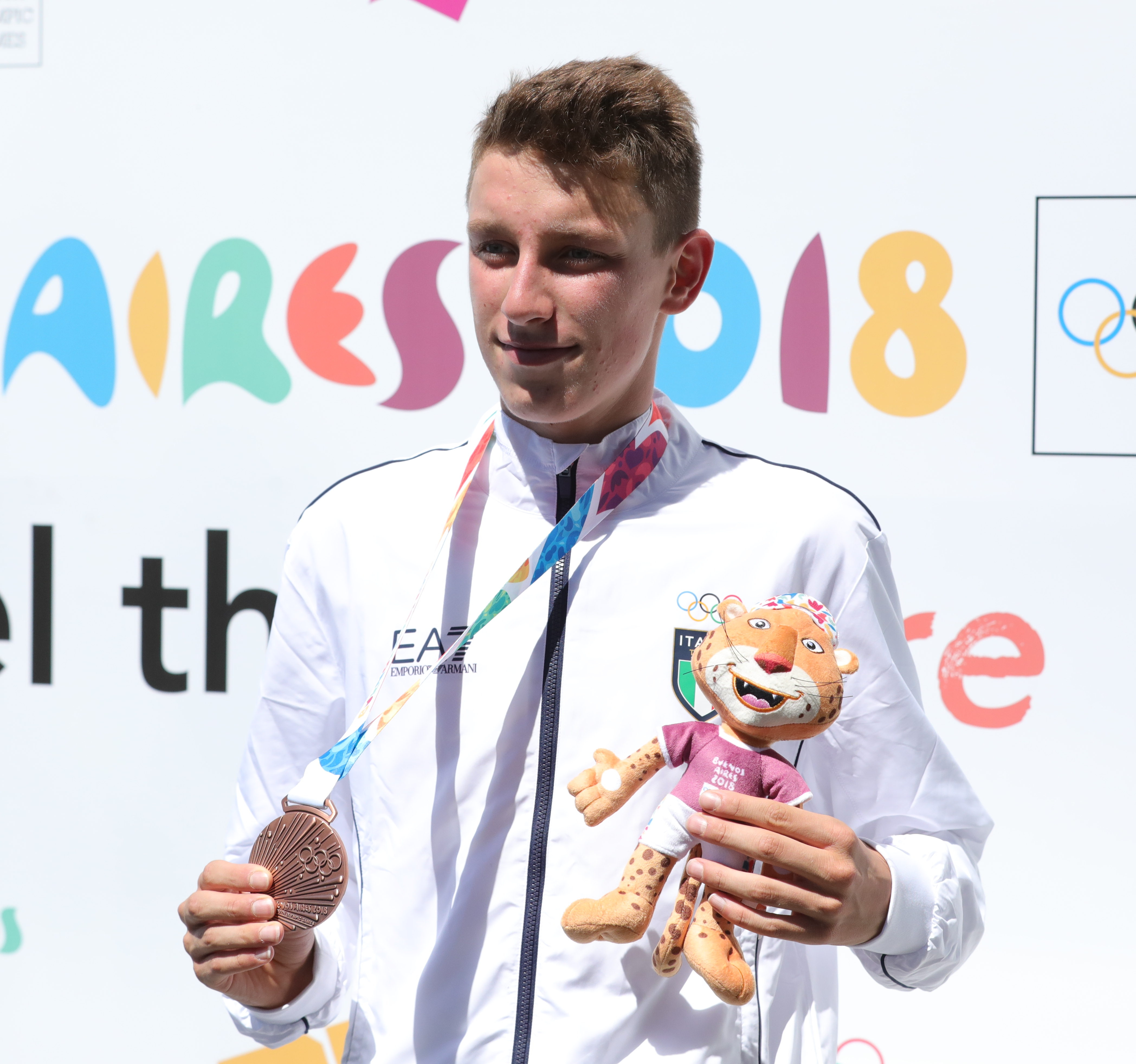 Boys Triathlon at the 2018 Summer Youth Olympic Games